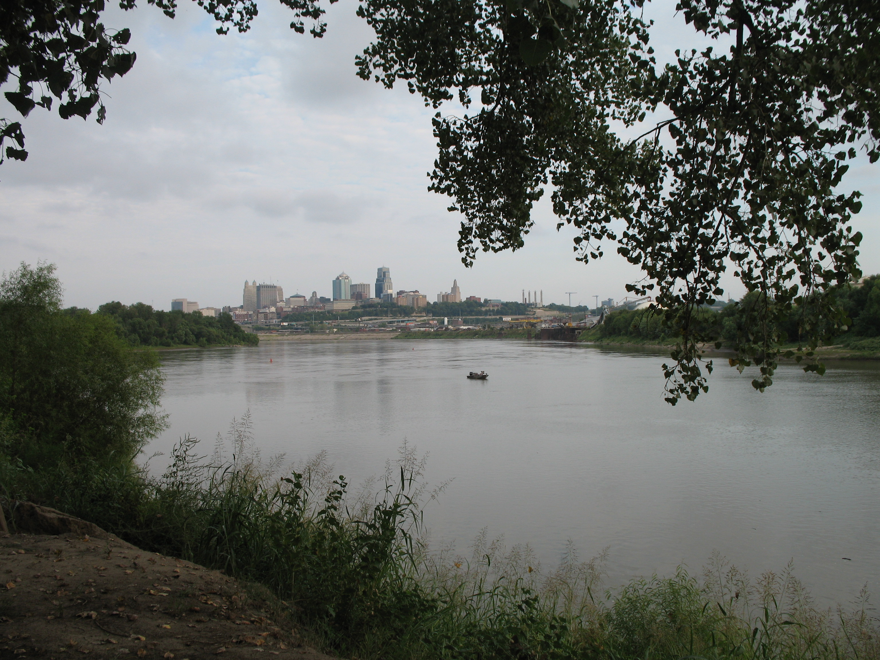 Kaw Point. Photo by poster in September 2007.